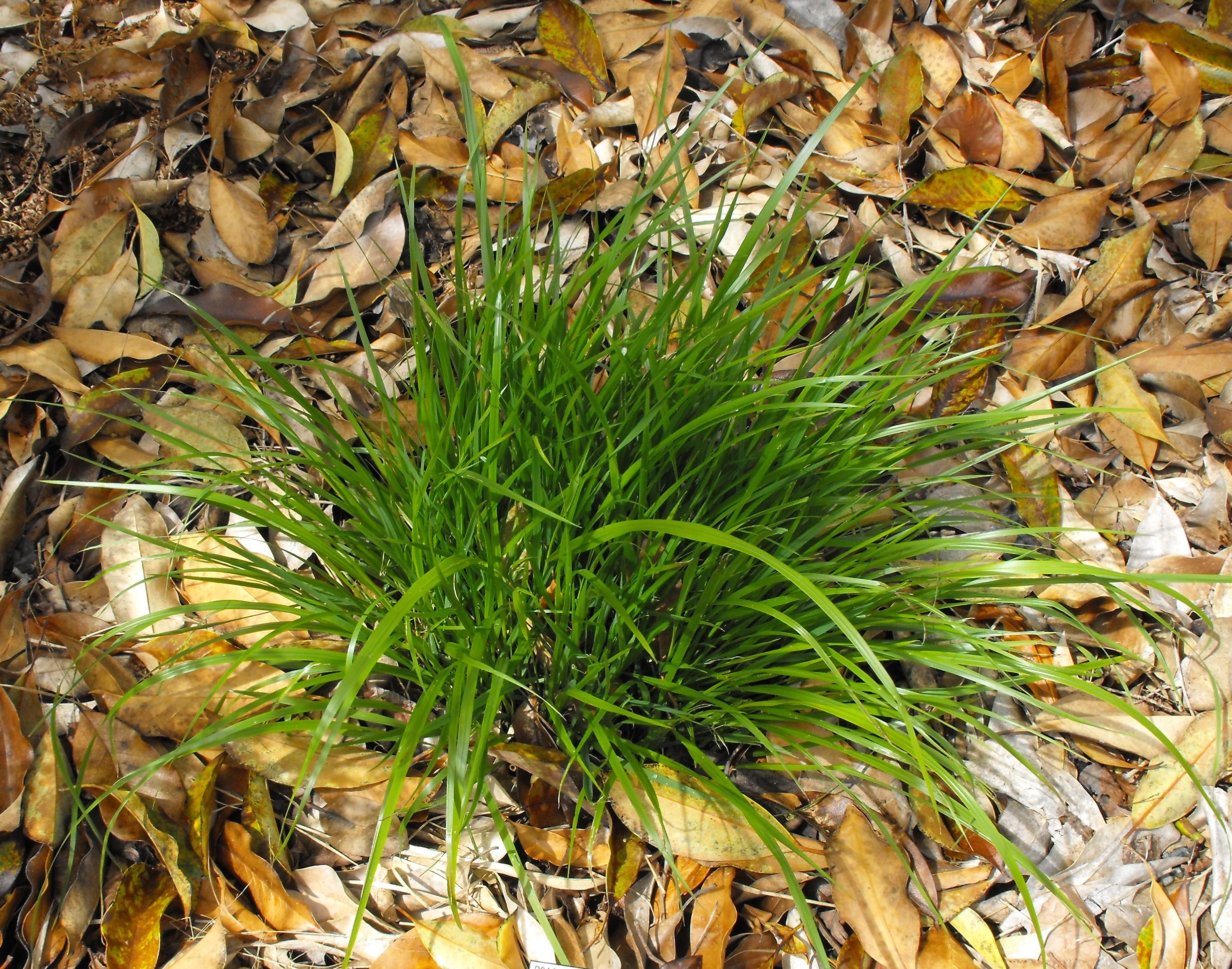 Achnatherum pekinense at the UC Berkeley Botanical Garden, California, USA. Identified by sign.